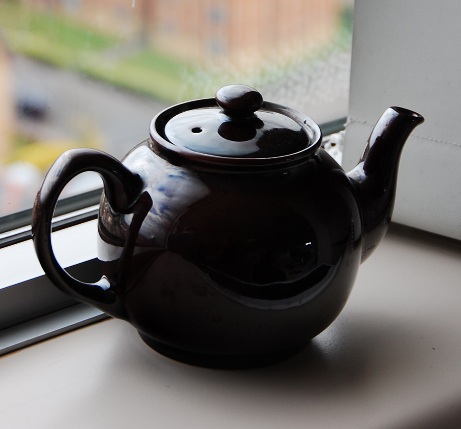 I tried out split toning in Photoshop. Then, for effect, I added a quote which has nothing to do with the photo so that I can lend it some credibility. How clever am I?!